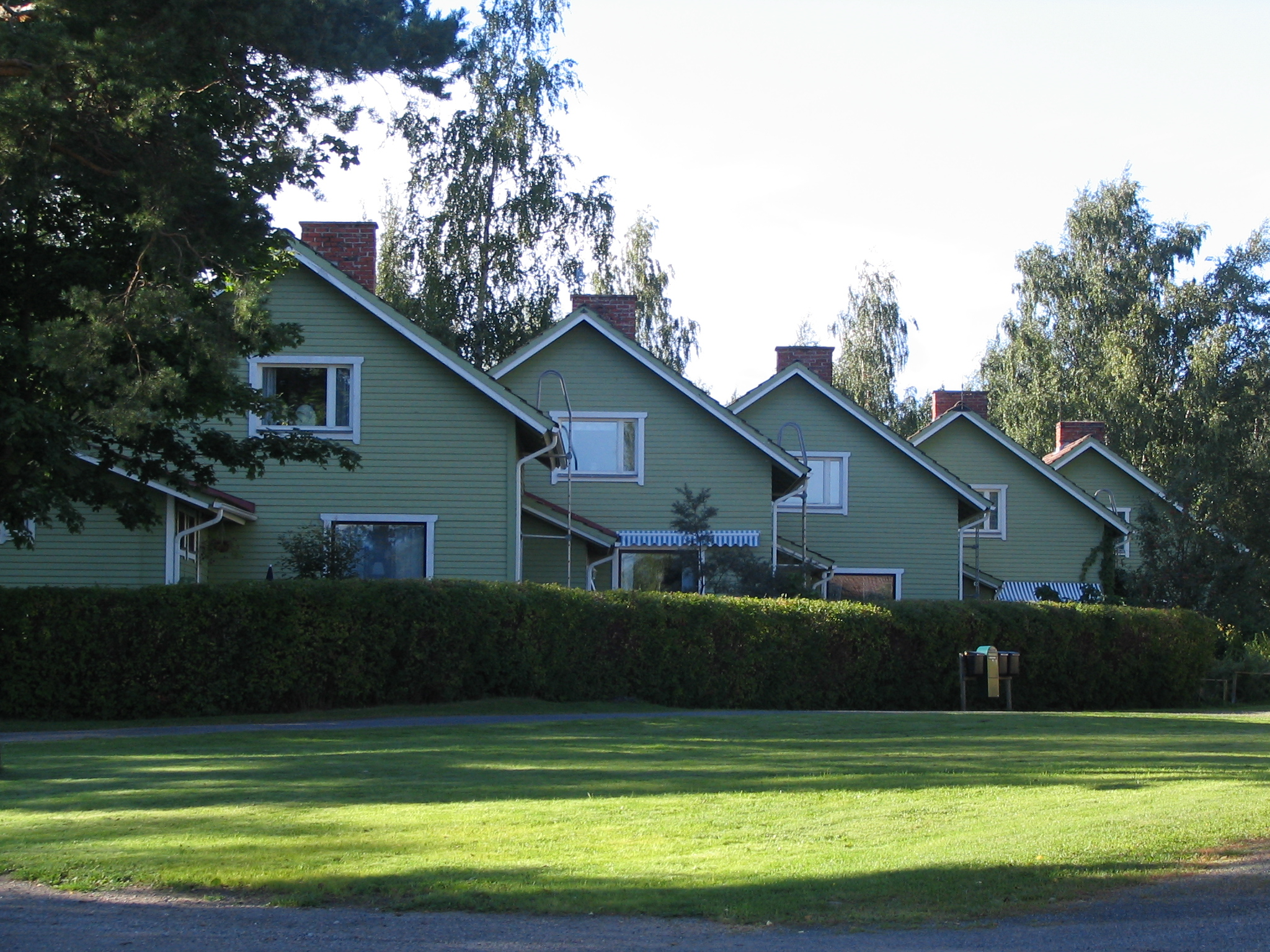 Some wooden buildings at Laivarannantie, Säynätsalo